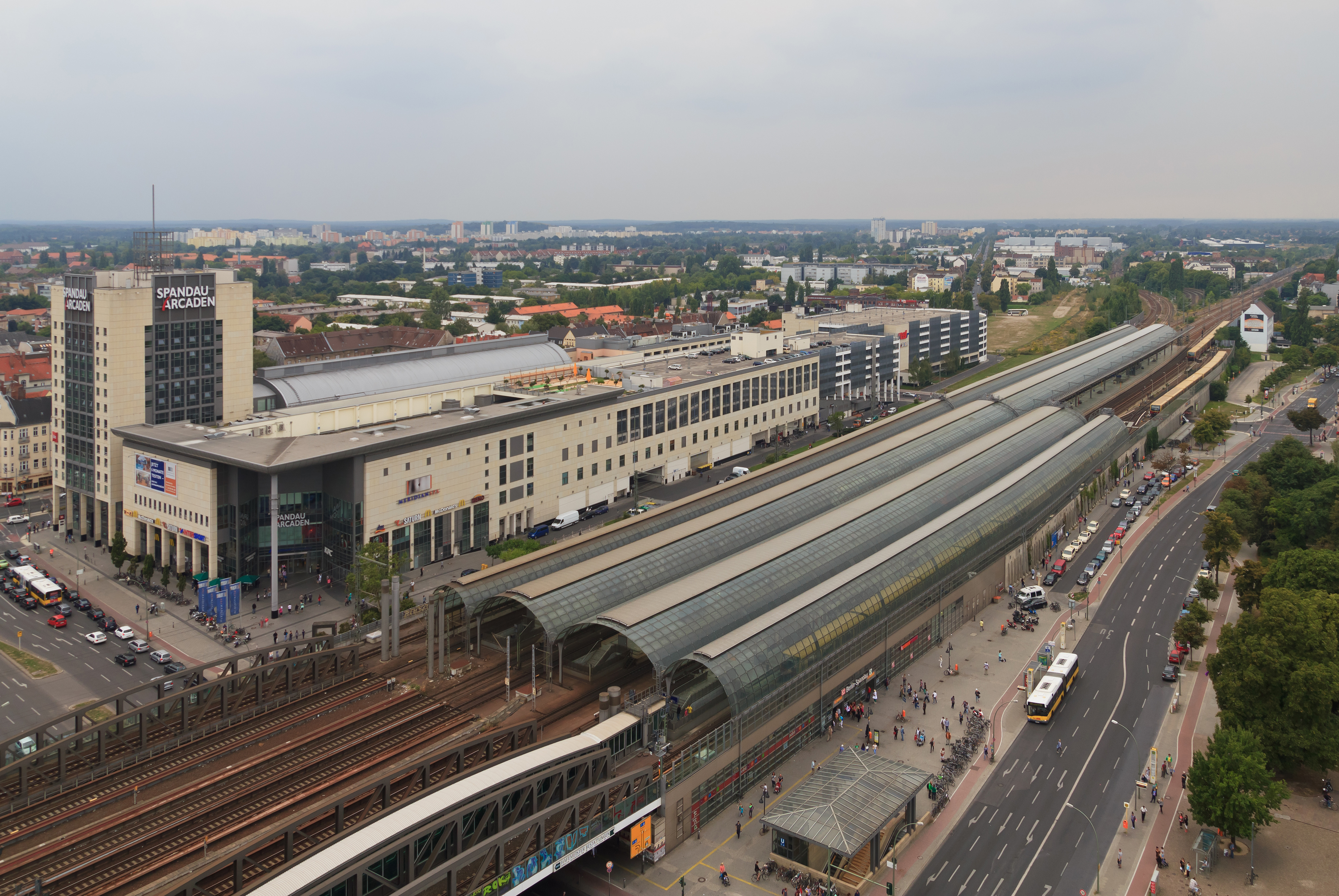 View from the tower of Spandau town hall, Berlin